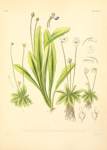 Pinguicula lusitanica, Pinguicula longifolia, Pinguicula alpina